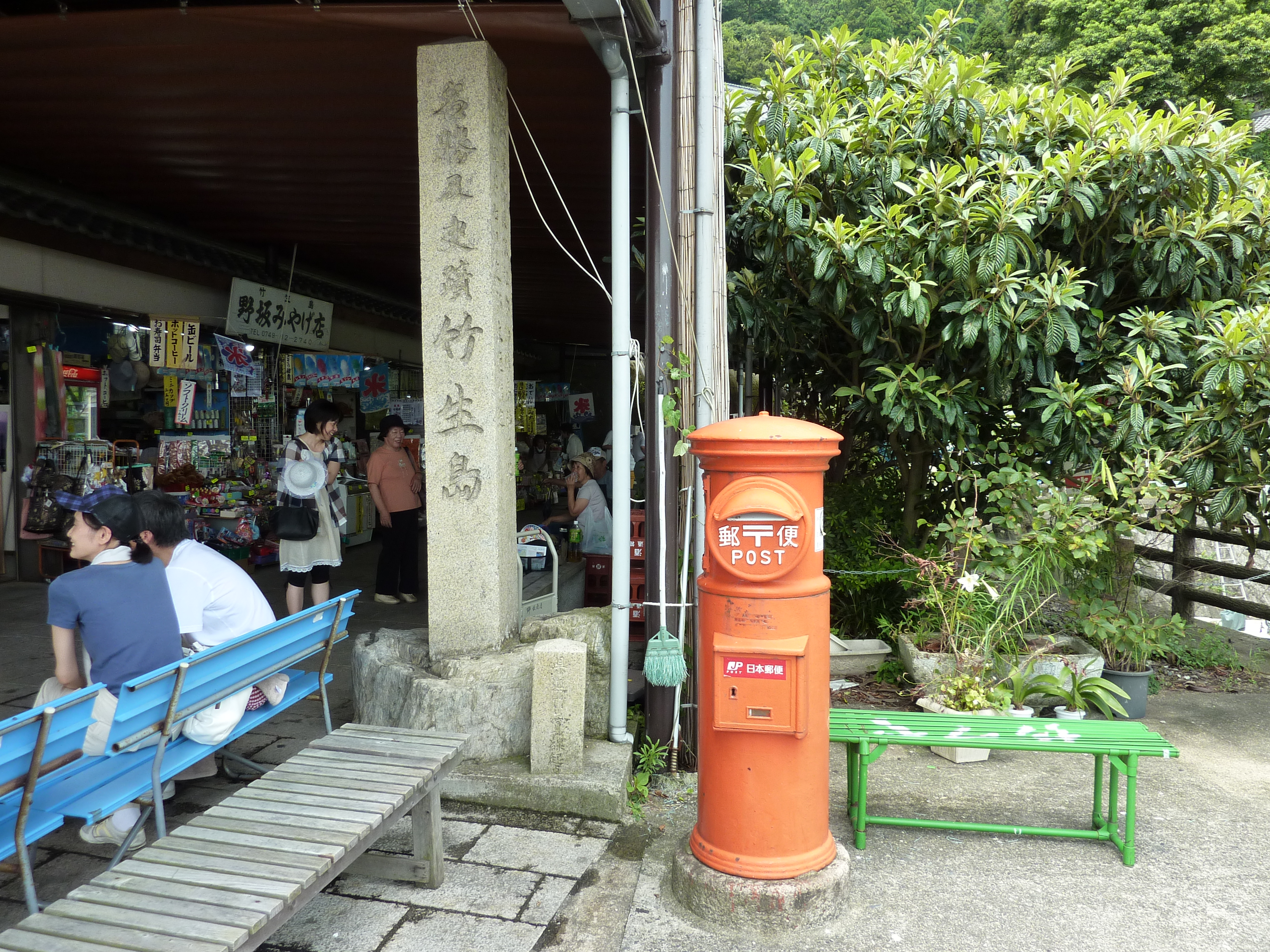 Shiga Prefectural road No. 319